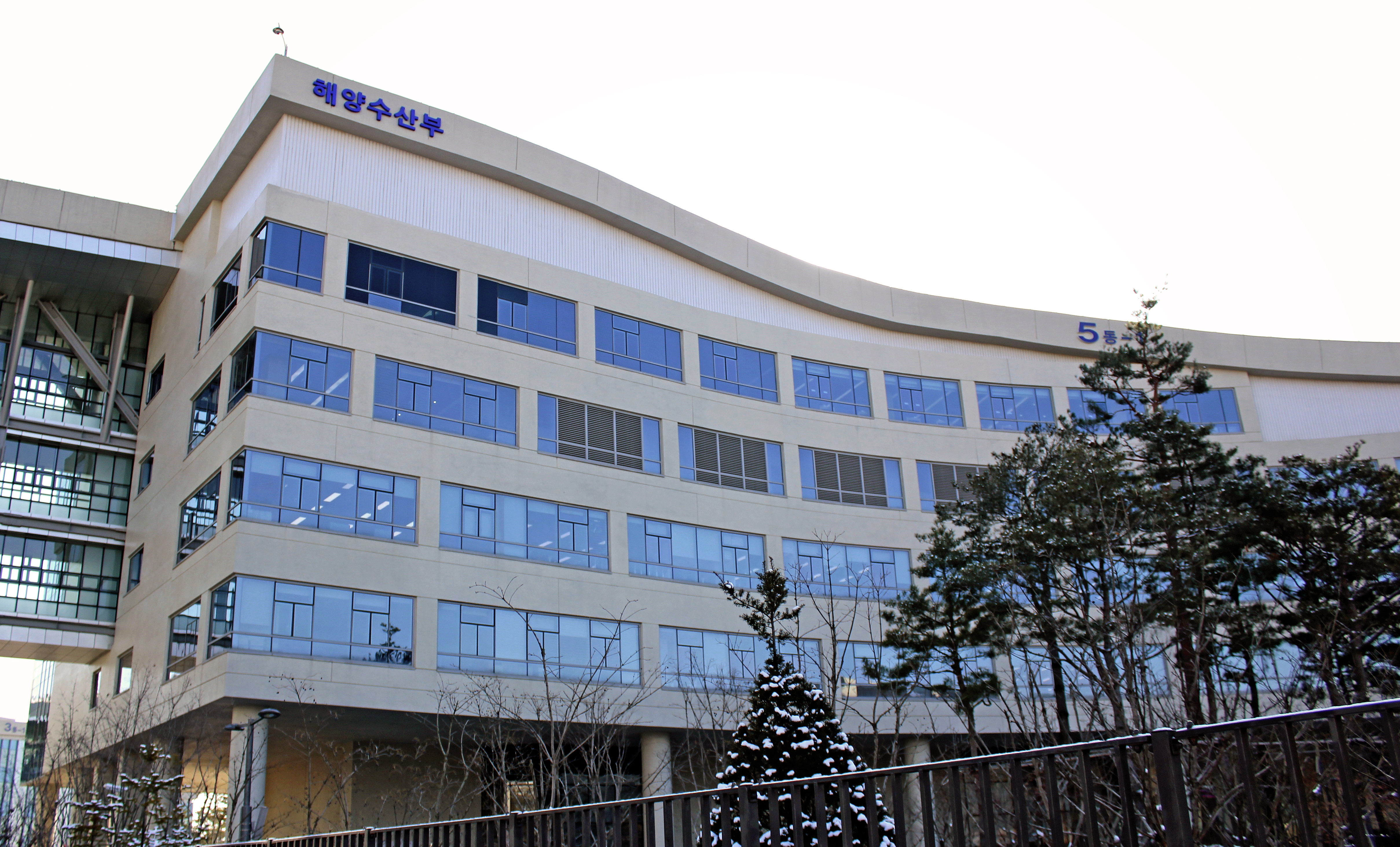 Ministry of Oceans and Fisheries @Government Complex Sejong #5